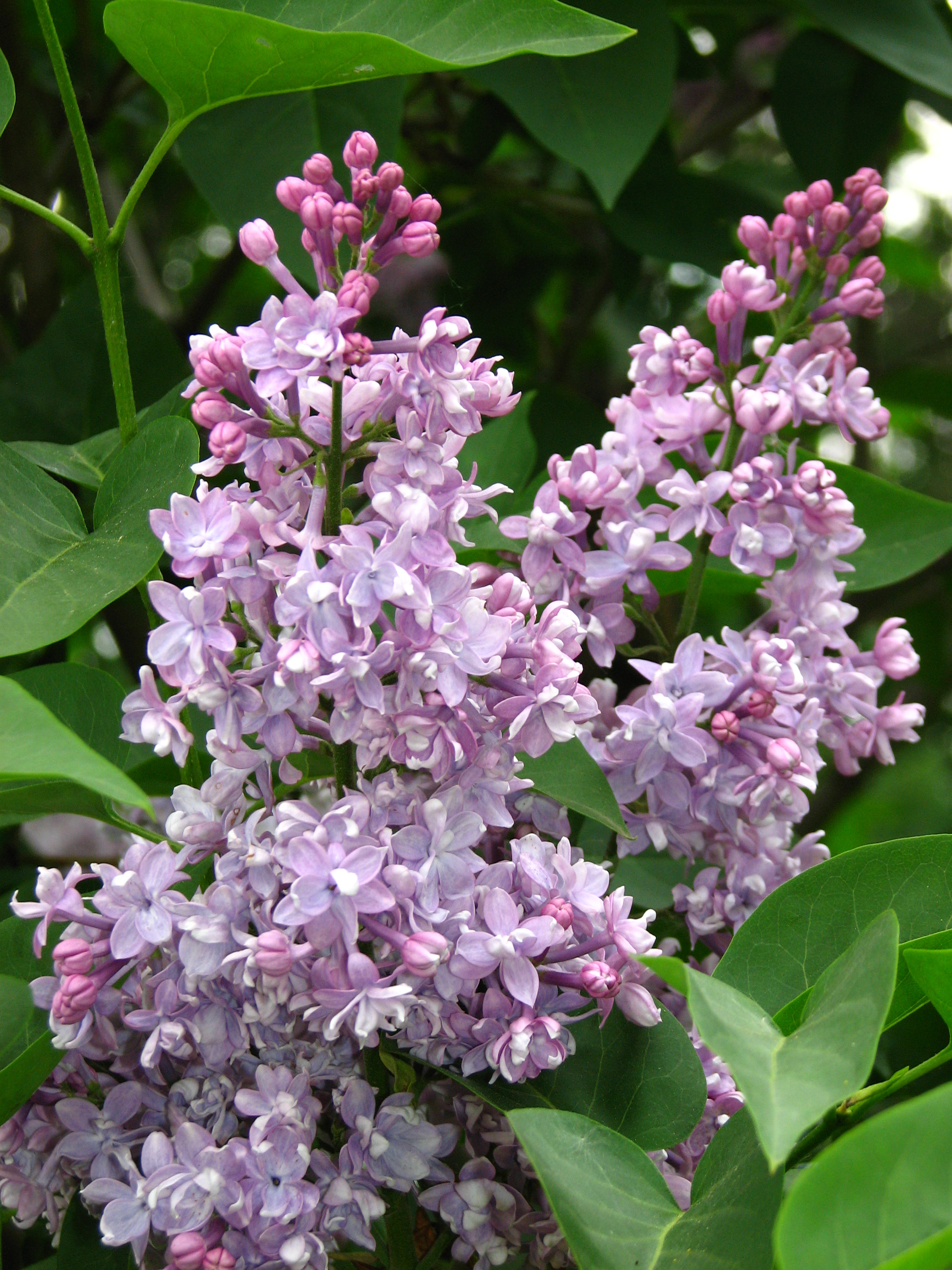 Syringa vulgaris 'Pamyat o Vavilove'. Originator: Vekhov, 1952. From the collection of the Botanical Garden of Moscow State University (main area on the Sparrow Hills).